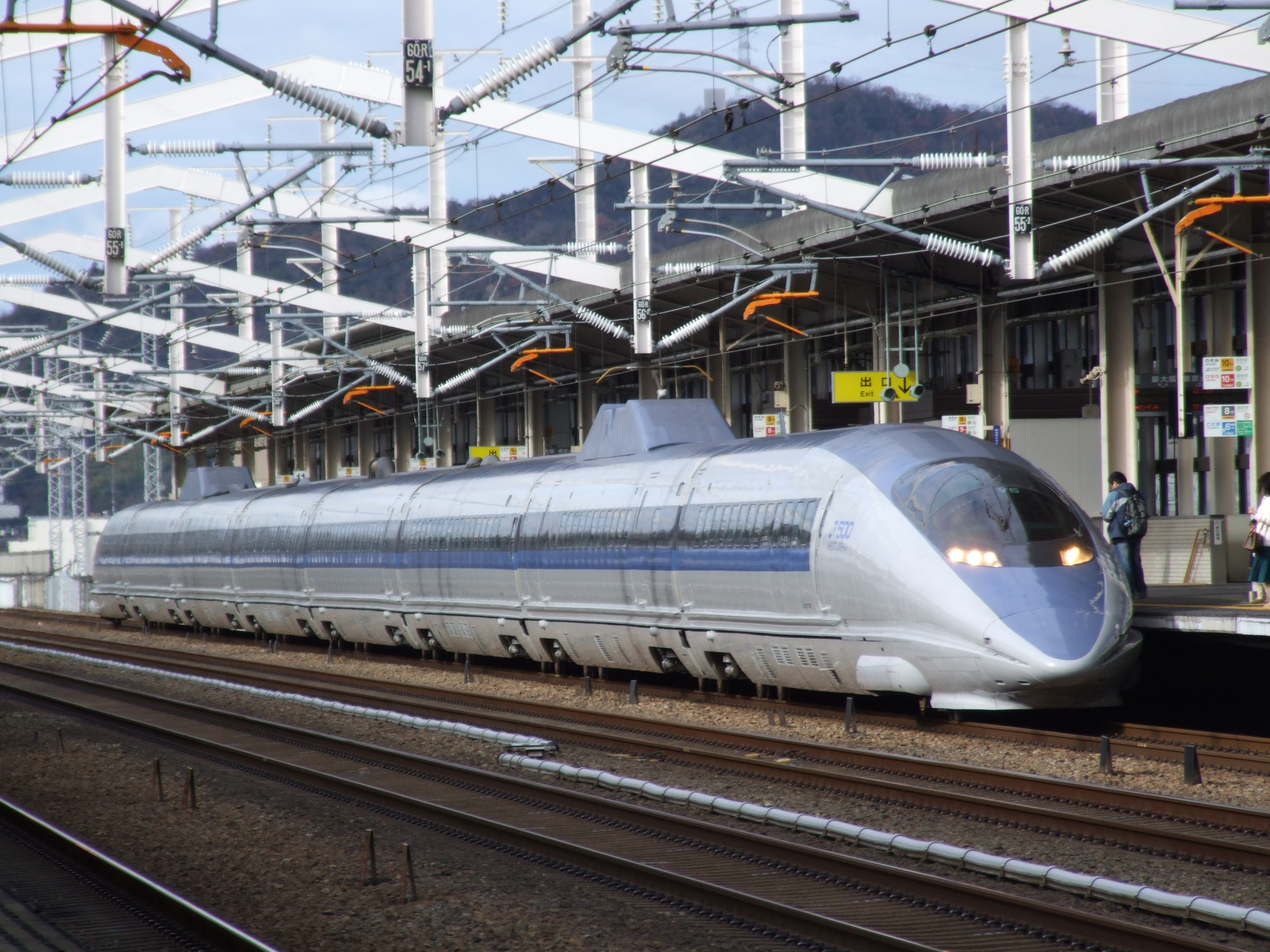 JR West 500 series shinkansen set V5 on a Kodama service at Himeji Station